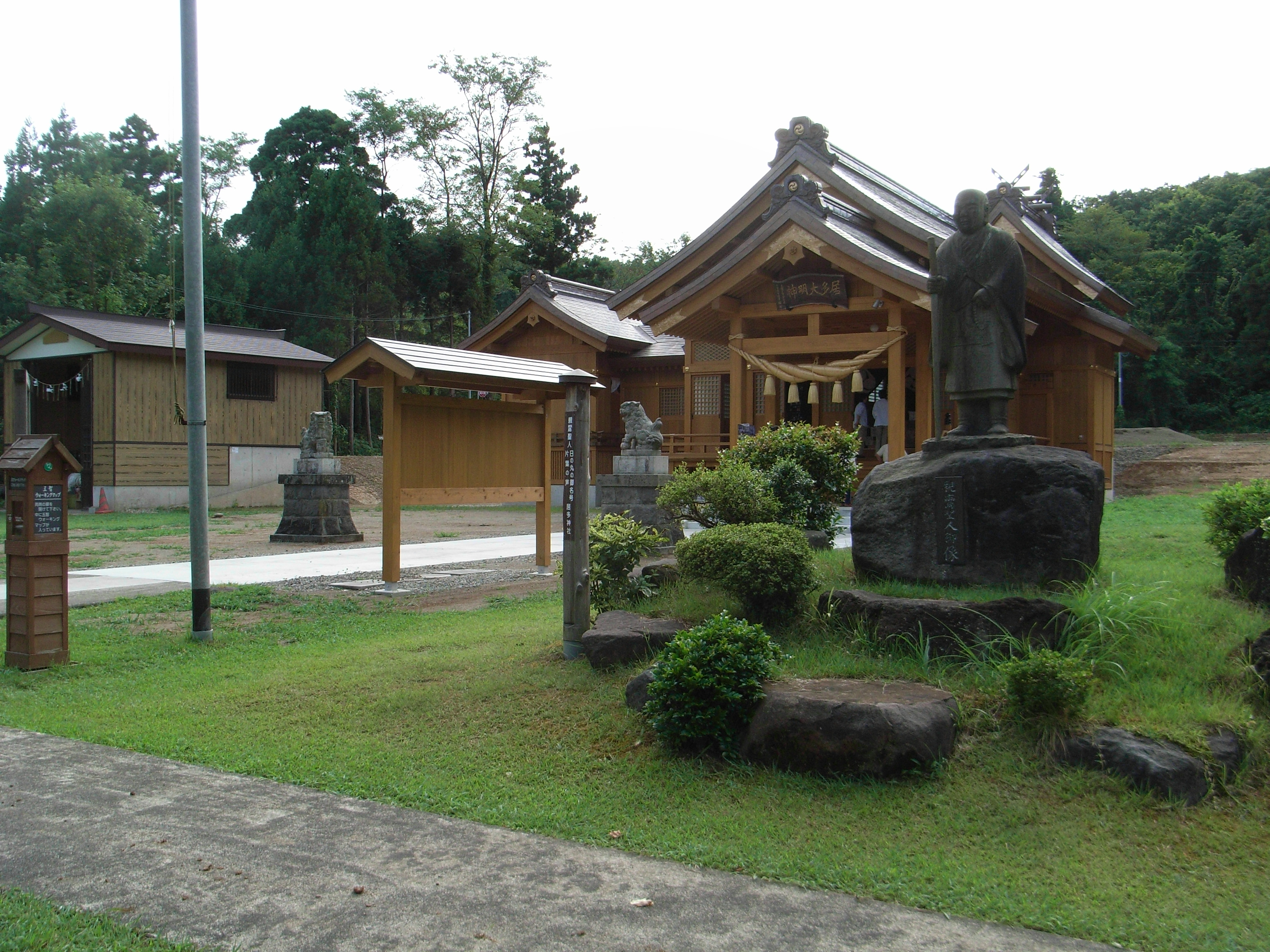 Kota Shrine, Gochi, Jōetsu, Niigata Prefecture, Japan, with statue of Shinran (1173 – 1263) to right